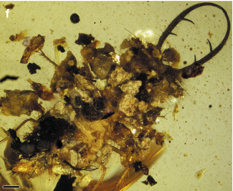 Diversity of the larvae of Myrmeleontiformia in mid-Cretaceous Burmese amber. F) Adelpholeon lithophorus gen. et sp. nov., holotype. g Pristinofossor rictus gen. et sp. nov., holotype. Scale bar: 0.5 mm